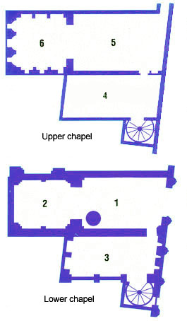 Floorplan Treasury Basilica of Saint Servatius, Maastricht, the Netherlands